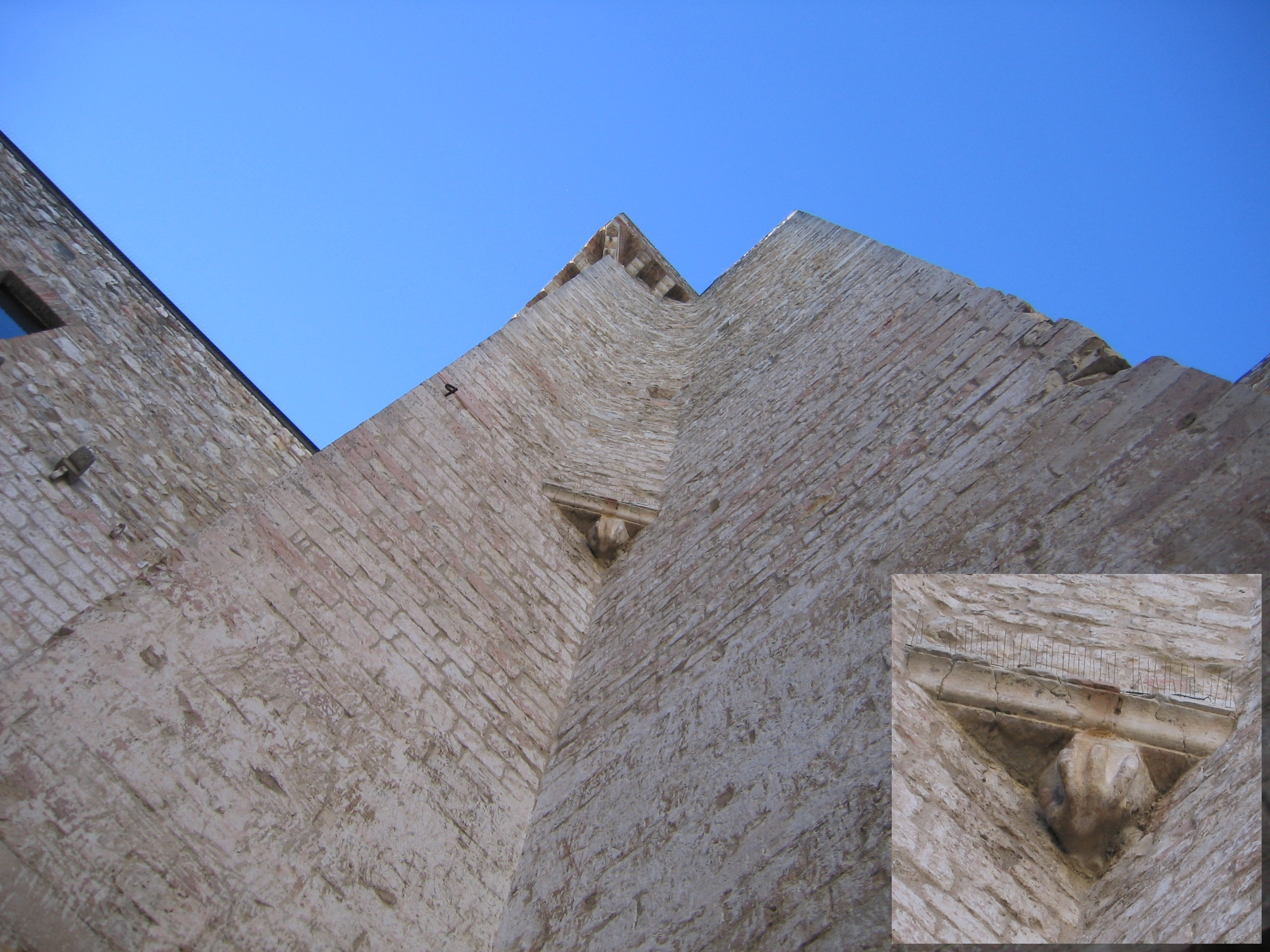 Fortress of Narni. Decorative feature. Conjunction of the "Keep tower" with the "Femmina tower": hand-shaped shelf that supports the weight of the structure.